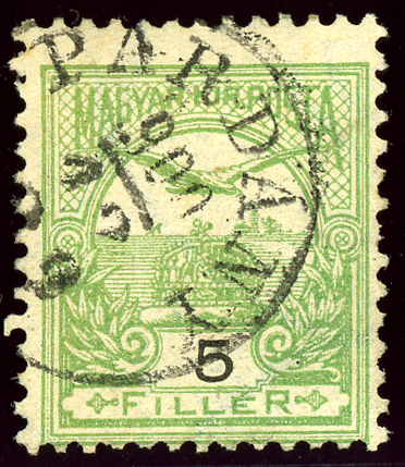 Kingdom of Hungary 5 fillér stamp, green issue 1900, cancelled at Párdány (the Hungarian name) in 1900, Vojvodina (Serbia). Michel N°58A.